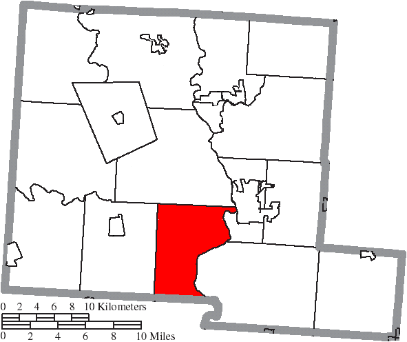 Map of the municipal and township boundaries of Pickaway County, Ohio, United States, as of the 2000 census, with the location of Wayne Township highlighted. Township borders are shown only in unincorporated areas in order to differentiate incorporated and unincorporated areas more clearly.